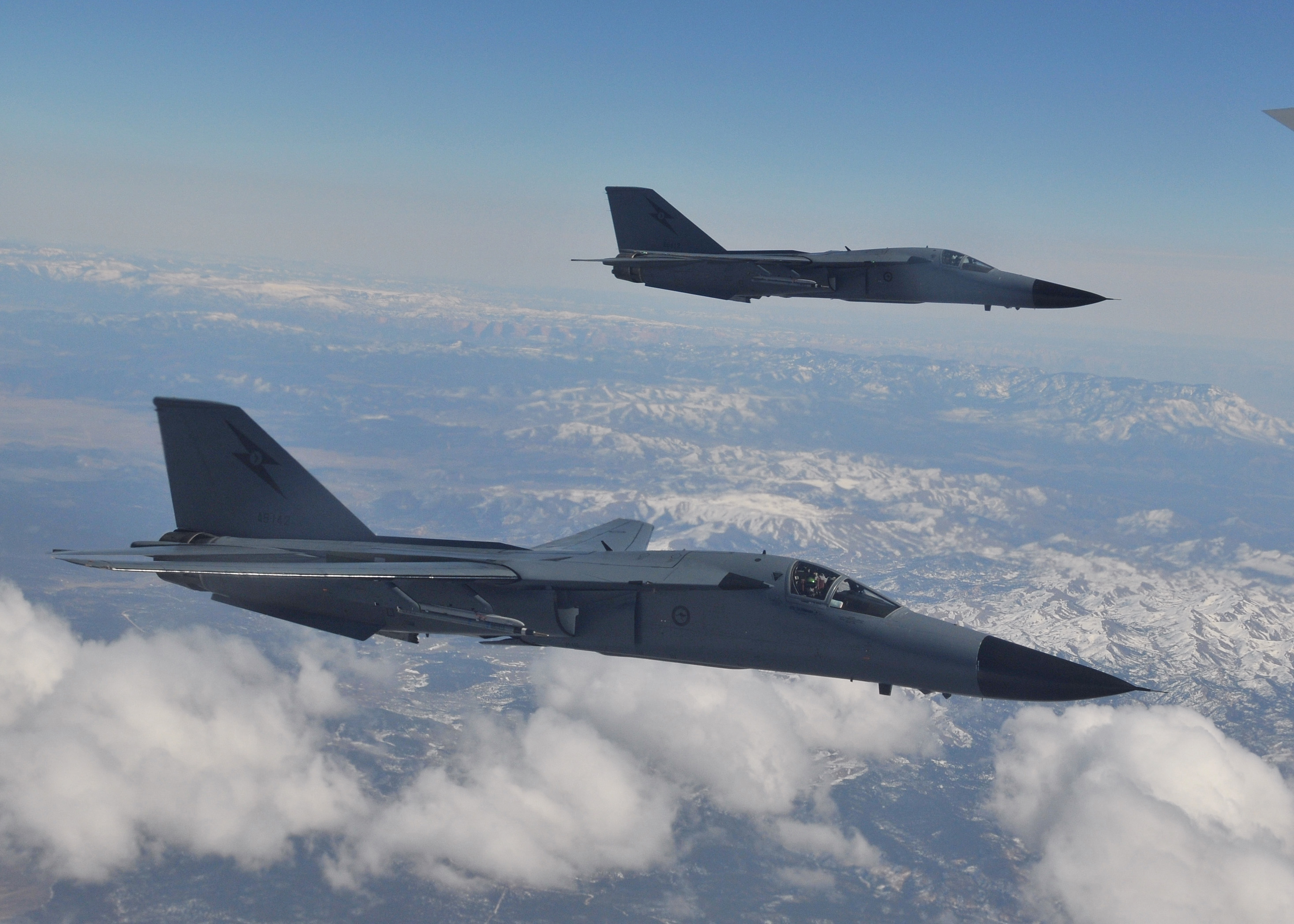 Royal Australian Air Force F-111C fighters formate on an Air Force KC-135R Stratotanker during a Red Flag 09-03 mission March 4. The F-111Cs and their crews provided long-range strike capabilities for the exercise's "Blue" forces. Many of the RAAF F-111s at Nellis Air Force Base, Nev., for Red Flag 09-03 are former U.S. Air Force aircraft that were based at Nellis in the 1960s. Red Flag provides realistic combat training for U.S., allied and coalition air forces.